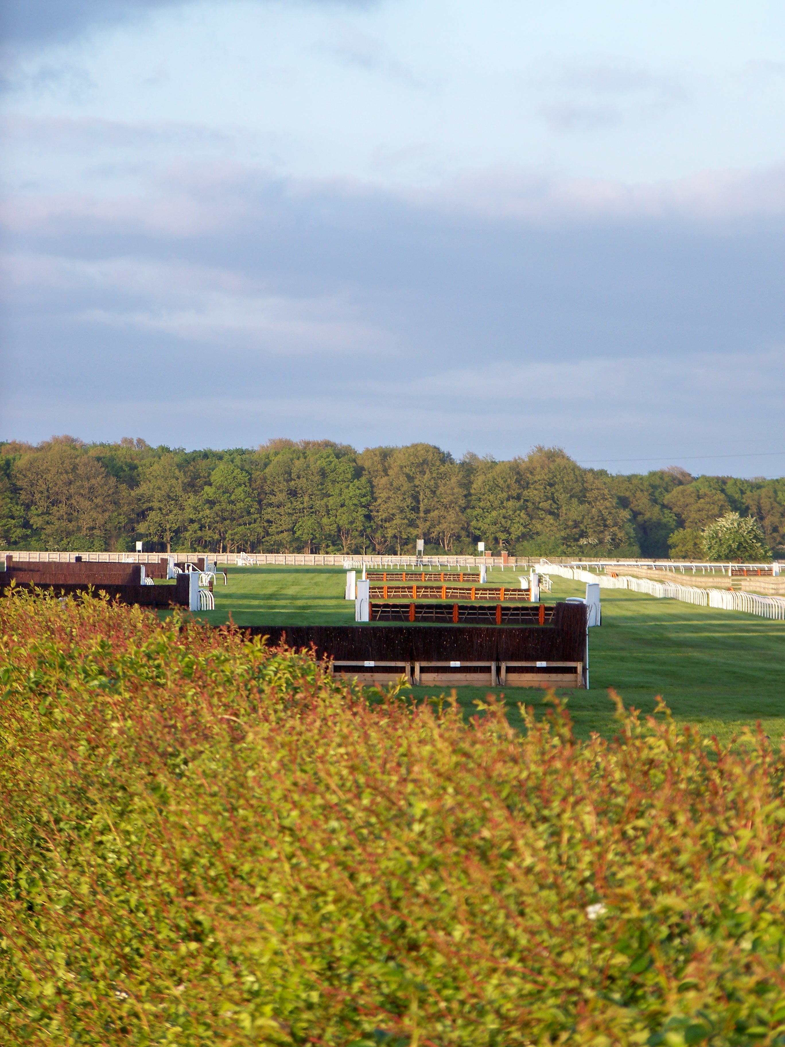 Jumps at Wetherby racecourse, Wetherby, West Yorkshire, UK. May 2009.